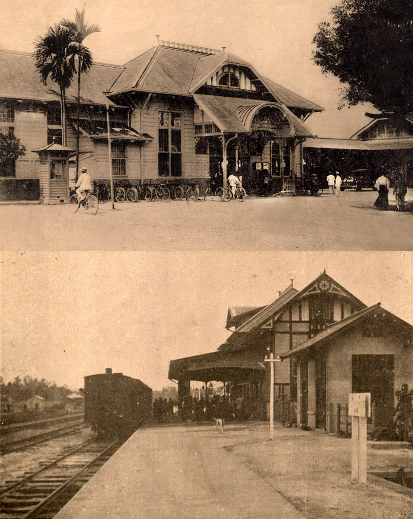 Byōtō Station (Pingtung Station) in Japanese era